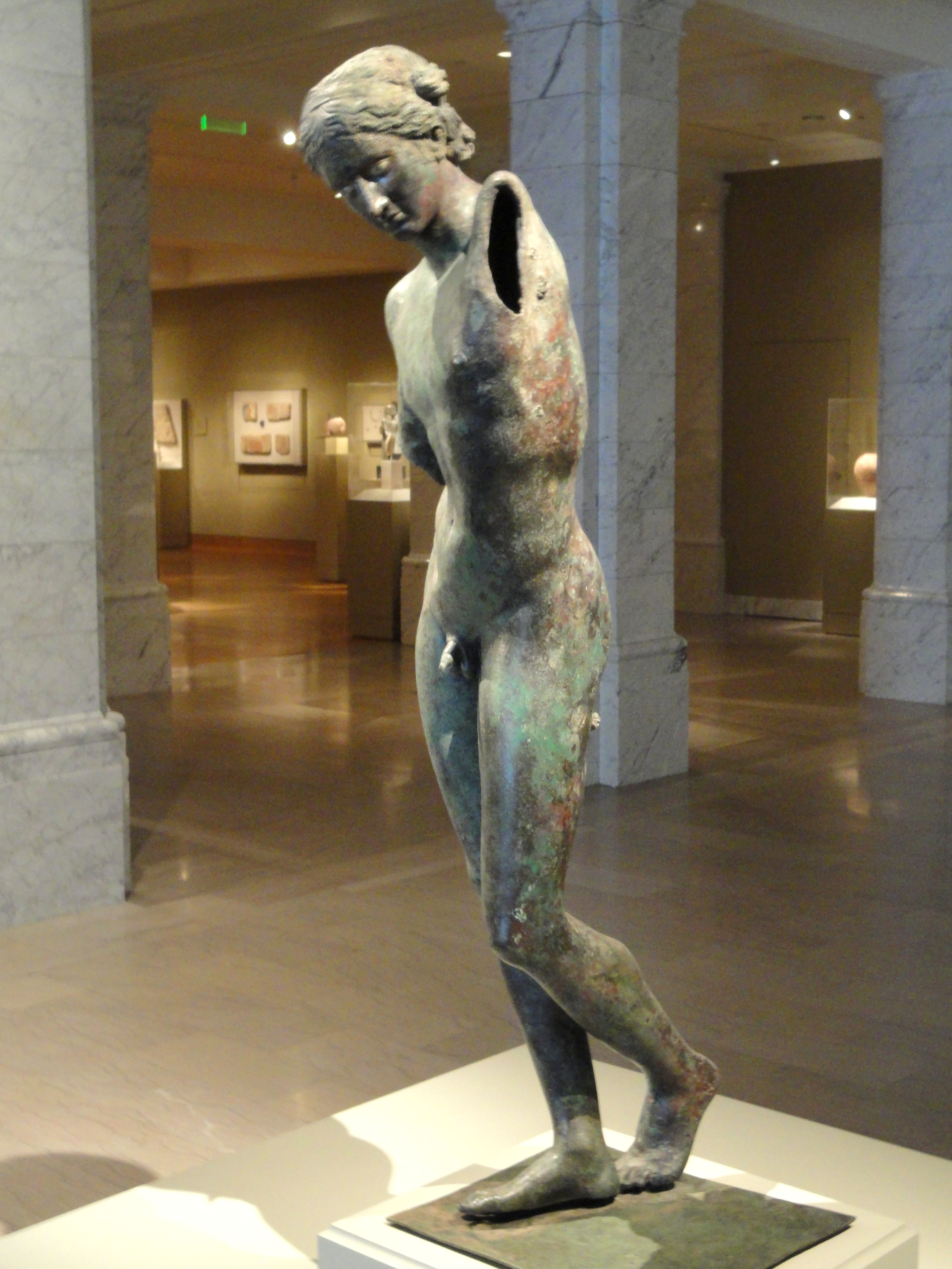 Apollo Sauroktonos attributed to Praxiteles, Cleveland Museum of Art, Cleveland, Ohio, USA. This artwork is old enough so that it is in the public domain.